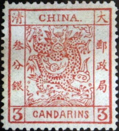 3-candareen stamp of 1878, Chinese Qing dynasty